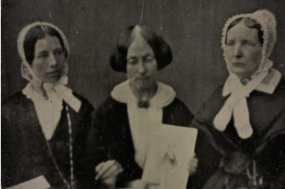 Eliza Wigham (1820-1899) from Edinburgh was the leading light on the Edinburgh Ladies Emancipation Society, Mary A. Estlin, and Jane Wigham. Picture is in Boston Library too